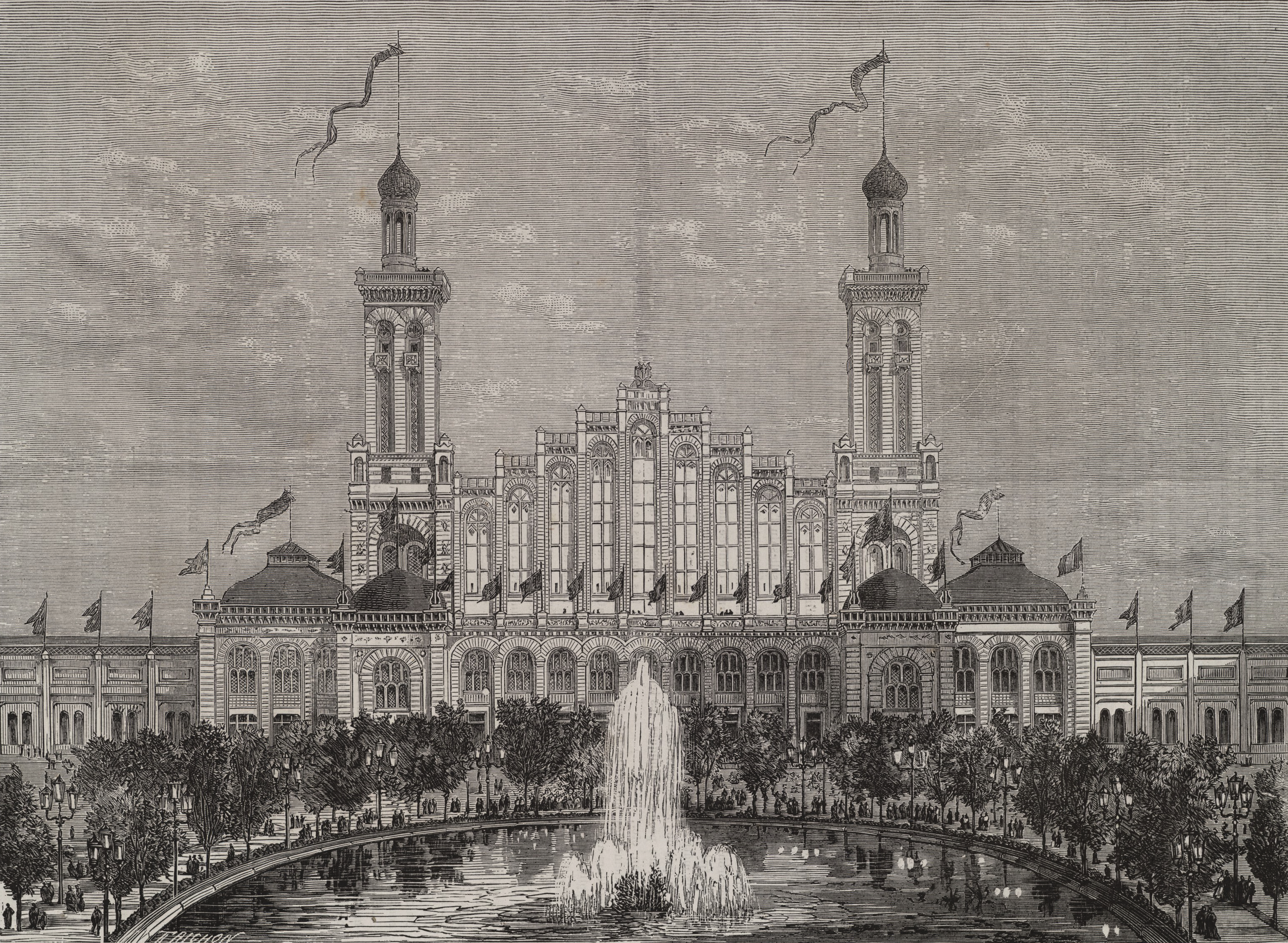 Palais du Trocadéro during the 1878 Paris World Fair. This view is taken from the place du Trocadéro, which was not the main facade of the building (the main facade was facing the Champ-de-Mars and the World Fair exhibition sites). The Trocadéro had been designed specifically for the 1878 fair by the architects Davioud and Bourdais. The building had three parts: the monumental central rotunda, framed by two minaret-like towers, served as a reception and concert hall which could contain about 5000 people. Two galleries on each side went from the rotunda to the outside of the building, and were inspired by St Peter's Piazza in Rome. The Palais was eventually damaged by a fire in 1935, and does not exist anymore today.